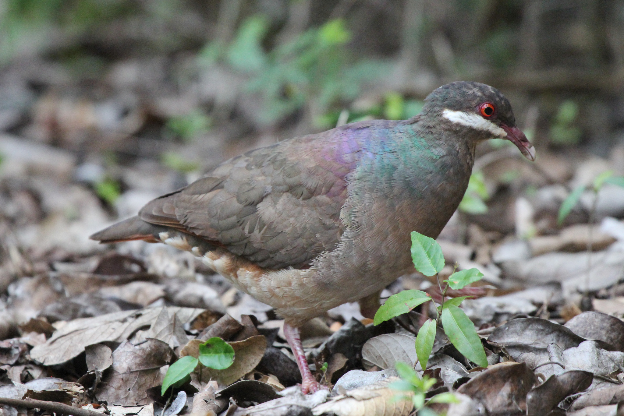 Bridled Quail-Dove (Geotrygon mystacea) St. John, U.S. Virgin Islands July 2012